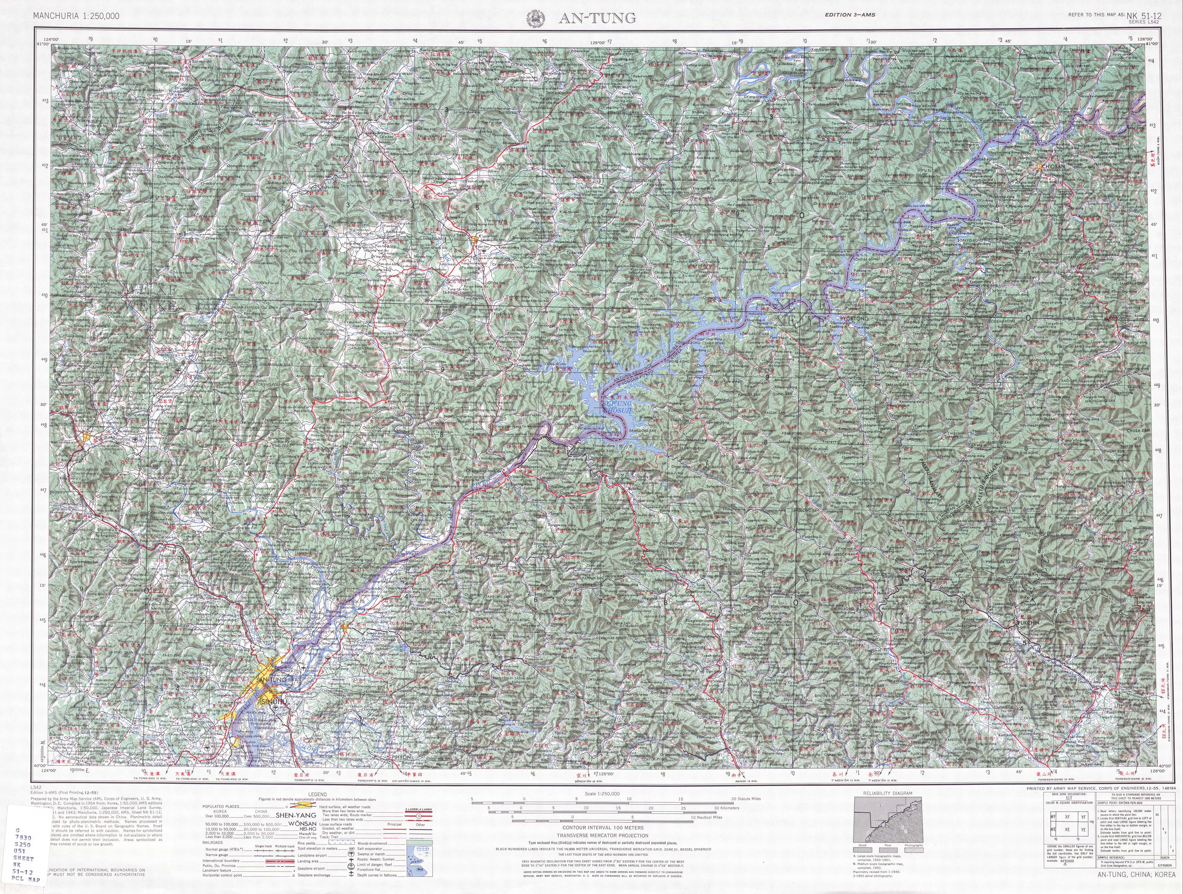 Map of Dandong (An-tung) area, in the former Andong Province (now Liaoning Province)